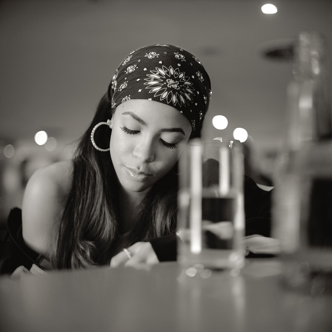 Singer Aaliyah Dana Haughton in Berlin 2000